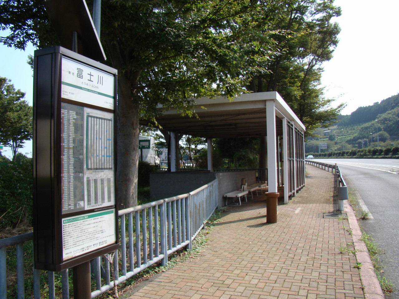 Tomei Expressway Fujikawa Bus Stop for Nagoya